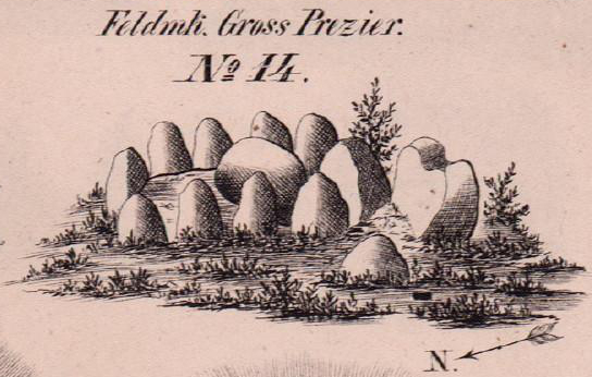 Megalithic tomb near Kahlstorf, Sprockhoff-No. 802